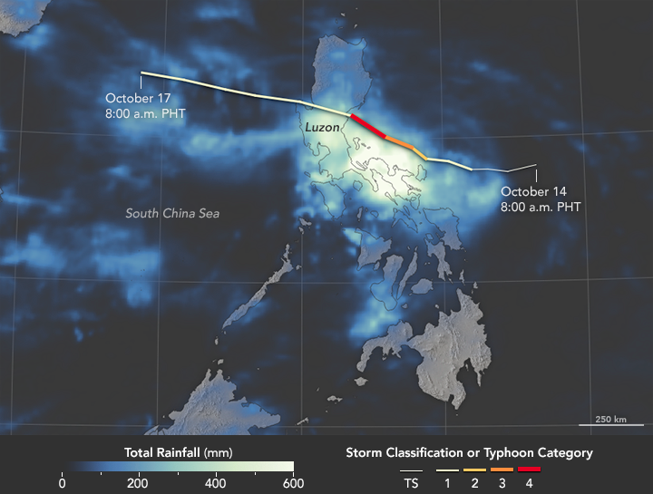 Within the span of a week, powerful back-to-back typhoons pummeled the Philippines in October. First, Typhoon Sarika made landfall over Luzon on October 15, 2016. Then Typhoon Haima hit the island four days later. Before Haima made landfall in northern Luzon, soils were already saturated by the deluge previously delivered by Typhoon Sarika. This map illustrates the scenario, depicting satellite-based measurements of rainfall from October 14-17, 2016. Sarika’s storm track is overlaid on the map. The rainfall totals are regional, remotely-sensed estimates, and local amounts can be significantly higher when measured from the ground. According to news reports, some towns saw about 550 millimeters (22 inches) of rain on October 14 and 15. “It’s likely that Haima will cause slides in both the Philippines and China,” said Thomas Stanley, a geoscientist at NASA’s Goddard Space Flight Center who catalogs rainfall-triggered landslides. He points out that a number of landslides, presumably due to Sarika, have already been reported, including a deadly event in southwestern Luzon.